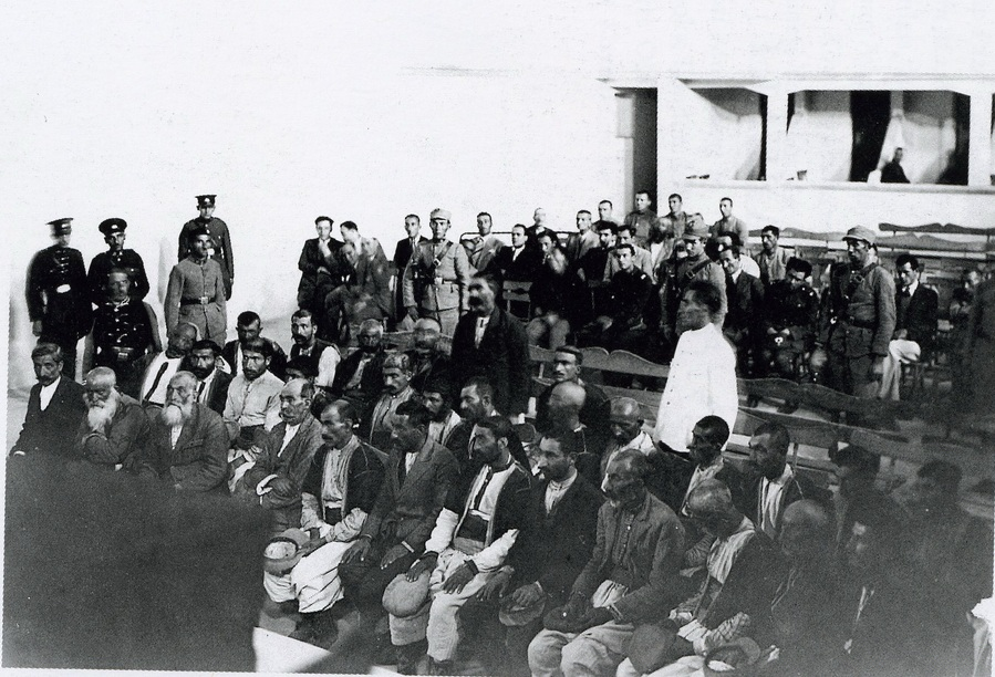 Tribunal at Elazig, 1937.